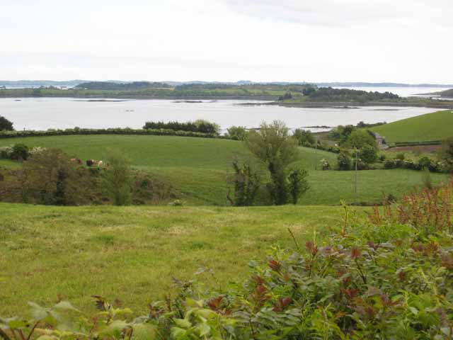 View of Strangford Lough from Ardmillan Road In the foreground are drumlins typical of this part of County Down. In the middle distance is the elongated Reagh Island J5264 whilst the far shore of Stranford Lough can be seen in the distance.